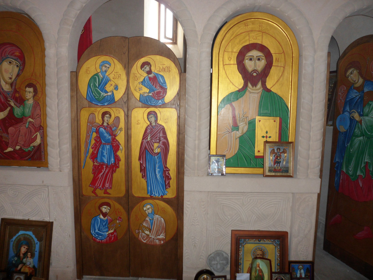 Kakhori church interior